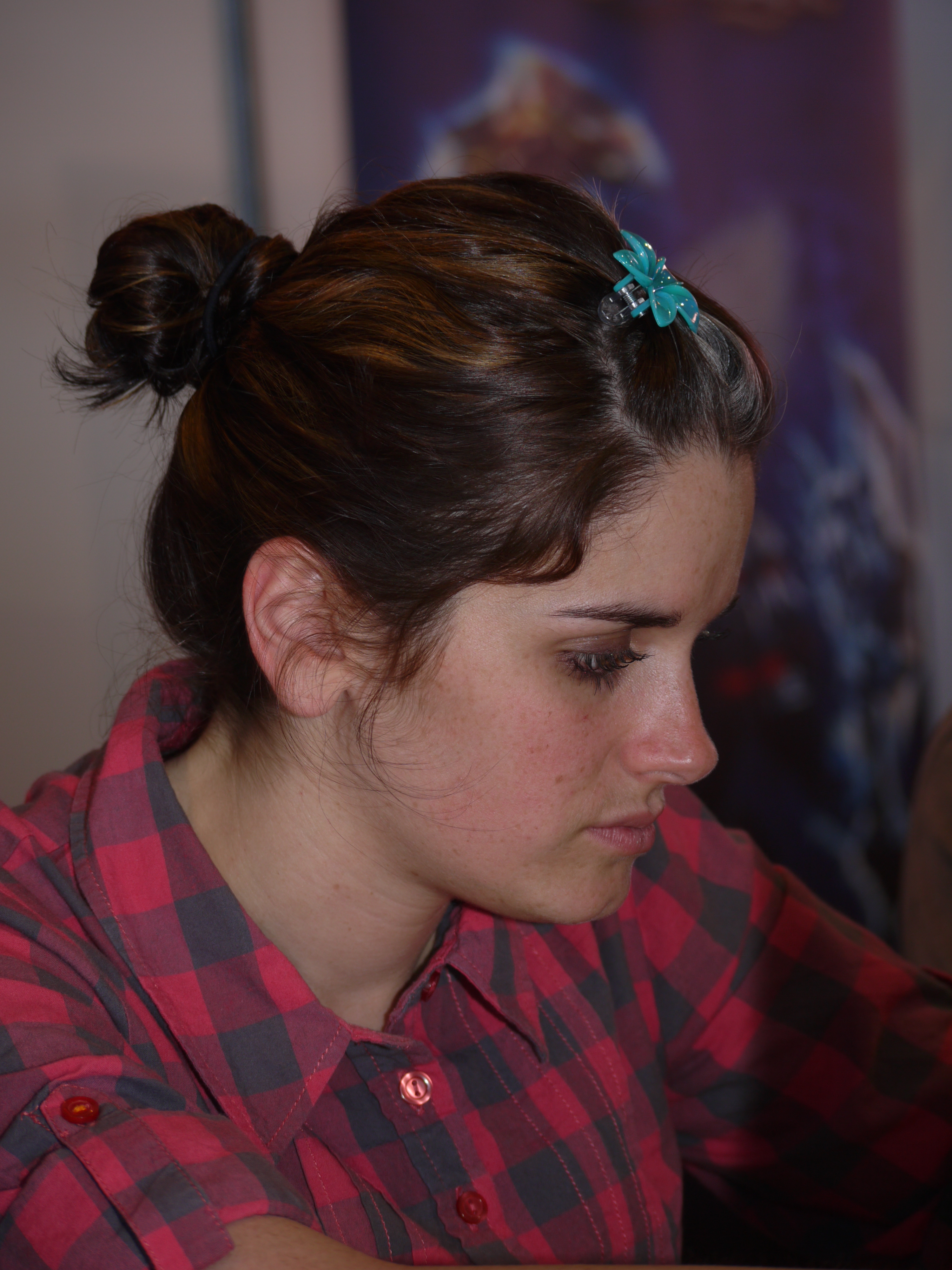 JapaNîmes convention 2010 edition of Nîmes - official site